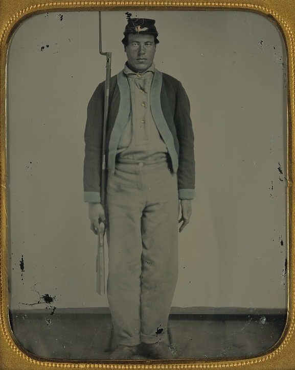 Title: Unidentified soldier of the 76th Pennsylvania Infantry Regiment in zouave uniform with bayonted musket Abstract/medium: 1 photograph : sixth-plate ambrotype, hand-colored ; 9.7 x 8.6 cm (case)